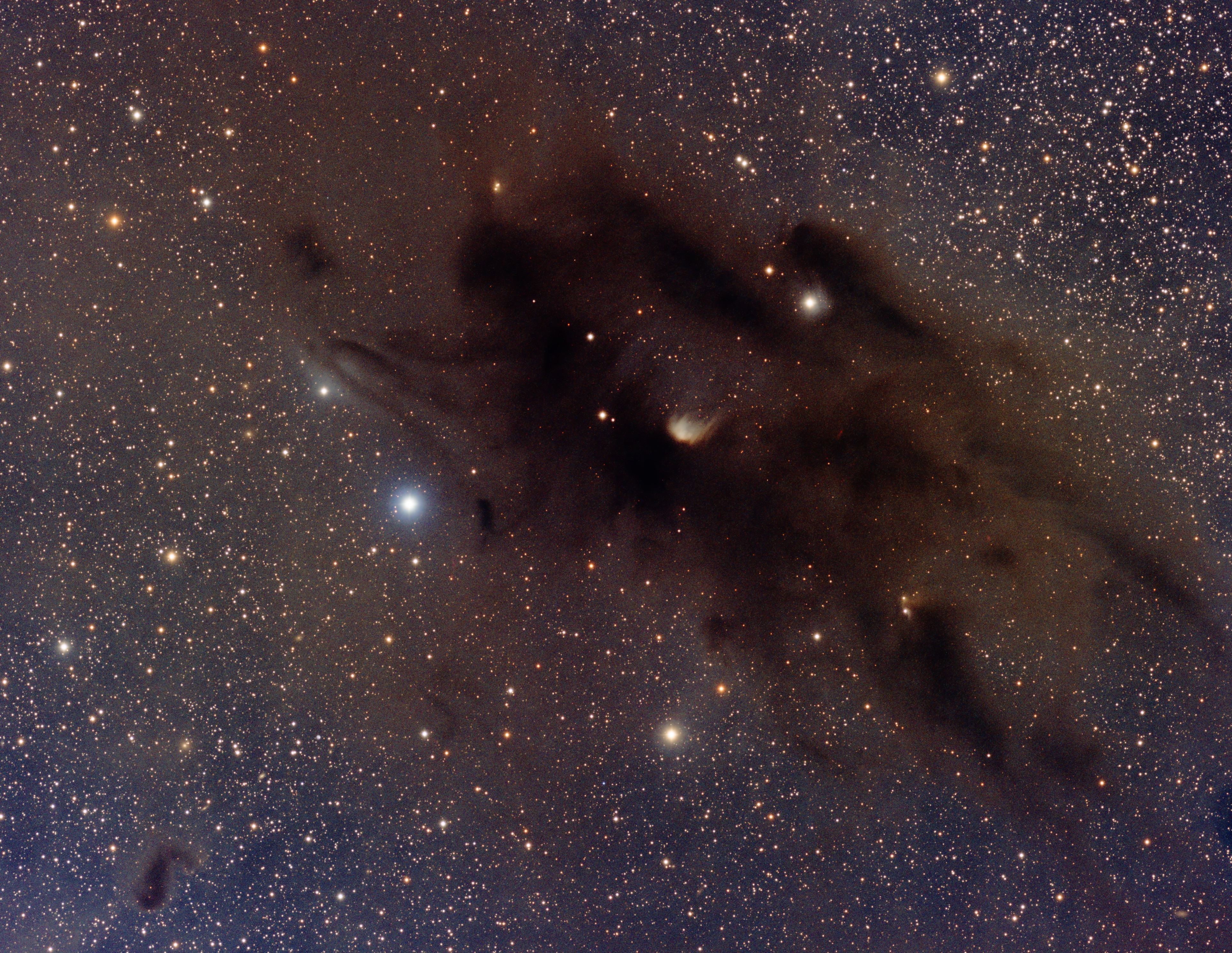 The Taurus molecular cloud 1 in the constellation of Taurus is notable for containing many complex molecules, including cyanopolyynes HCnN for n=3,5,7,9. Imaging dates: 27 sep 2017, 21,22,23,24,27,28 oct 2017 11,12,15,16,17,18,19,20,21 dec 2017 Esprit 100 f5.5/ QHY16200 CCD @ -20C It was extremely difficult to image this object in such a way that the typical blue-ish glow in the background came out enough to make the dark clouds "float".